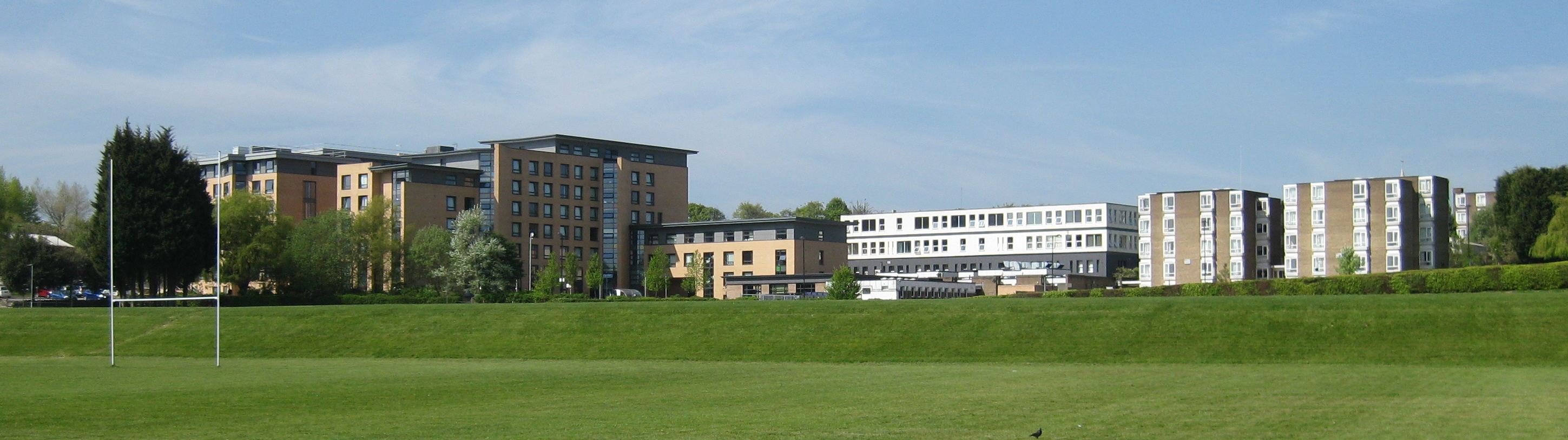 Leeds Trinity University. View from sports field